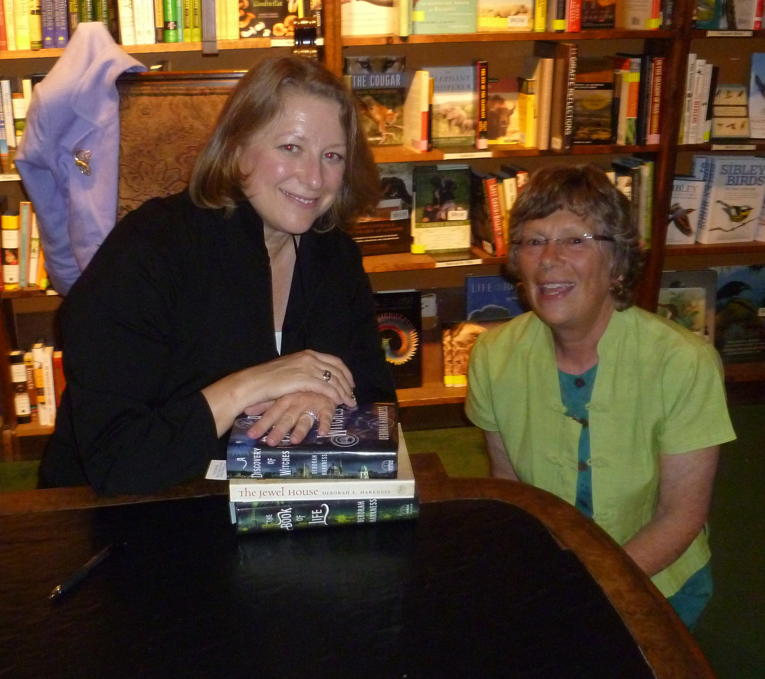 Deborah Harkness at a book reading, August 2014